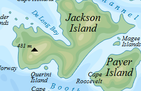 Querini Island along with nearby islands